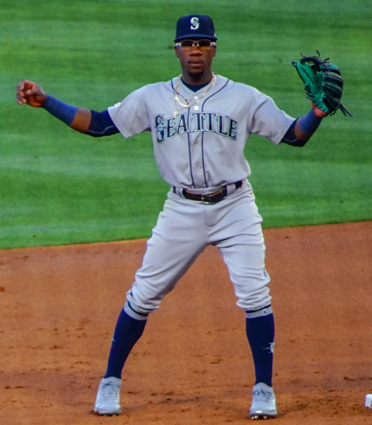 Shohei Ohtani runs the bases for the Los Angeles Angels during a 2019 game against the Seattle Mariners at Angel Stadium in Anaheim, California.